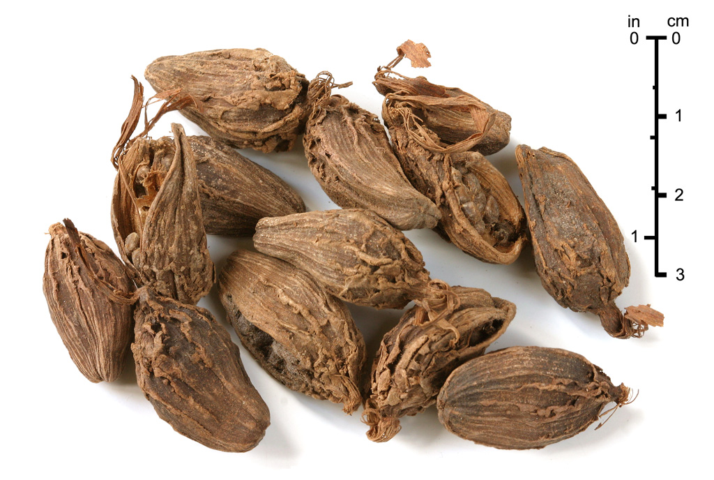 Amomum subulatum Black Cardamom seed pods. Photographed by Brian Arthur and released under the GNU Free Documentation License. All remaining rights reserved.